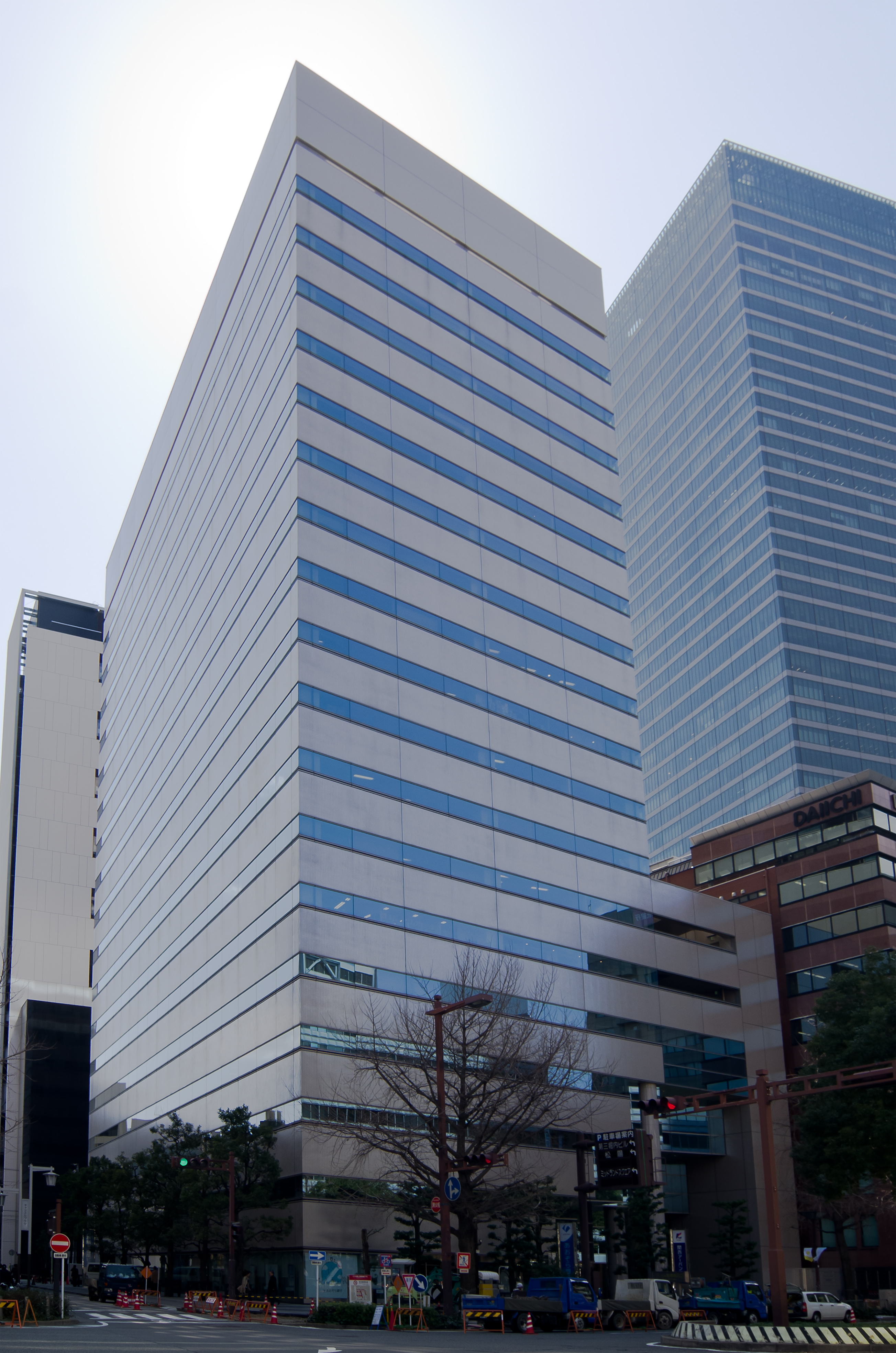 Kintetsu New Nagoya Building in Nakamura-ku, Nagoya, Aichi, Japan.